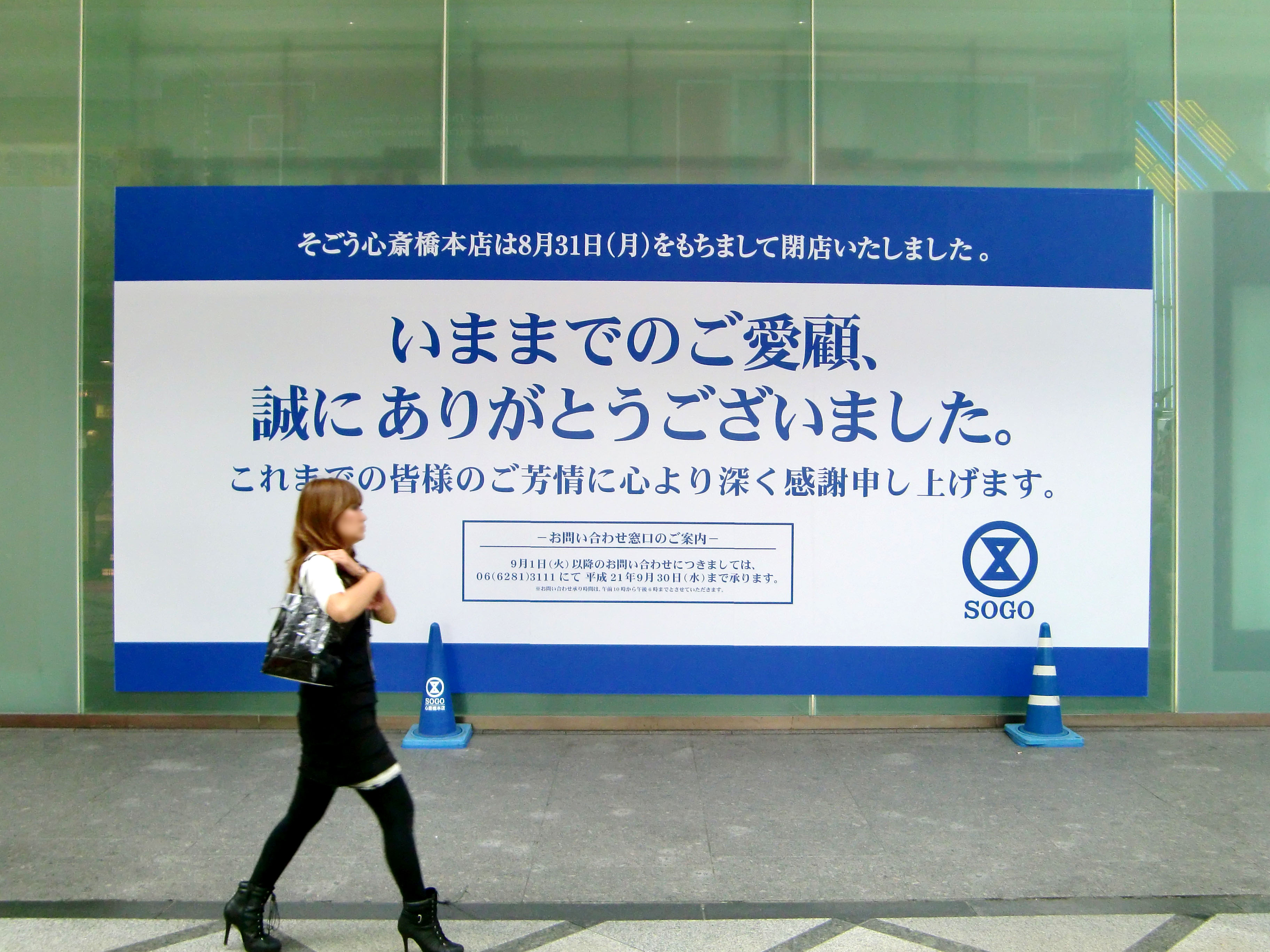 SOGO Shinsaibashi Closed, 1-8-3 Shinsaibashisuji, Chuo-Ku, Osaka City, Osaka, Japan.